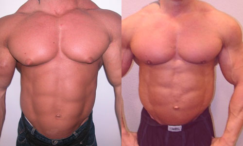 Grade I gynecomastia in a bodybuilder. Corrected with a direct excision surgery protocol developed to minimize scarring